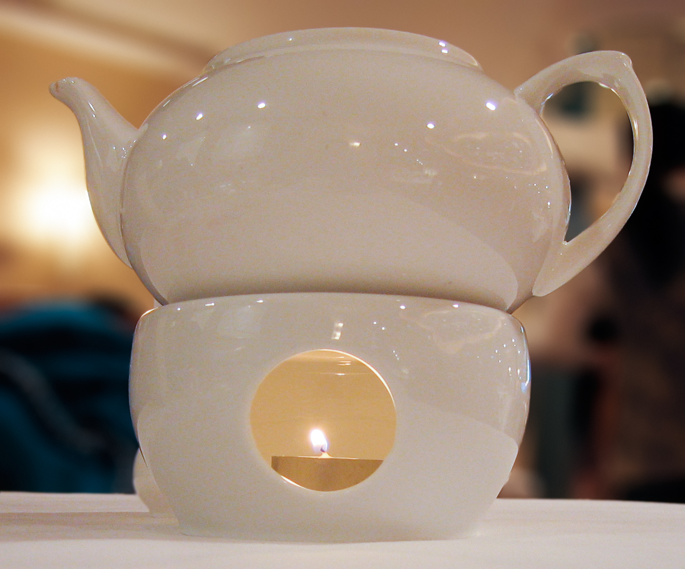 Tea pot and tea light